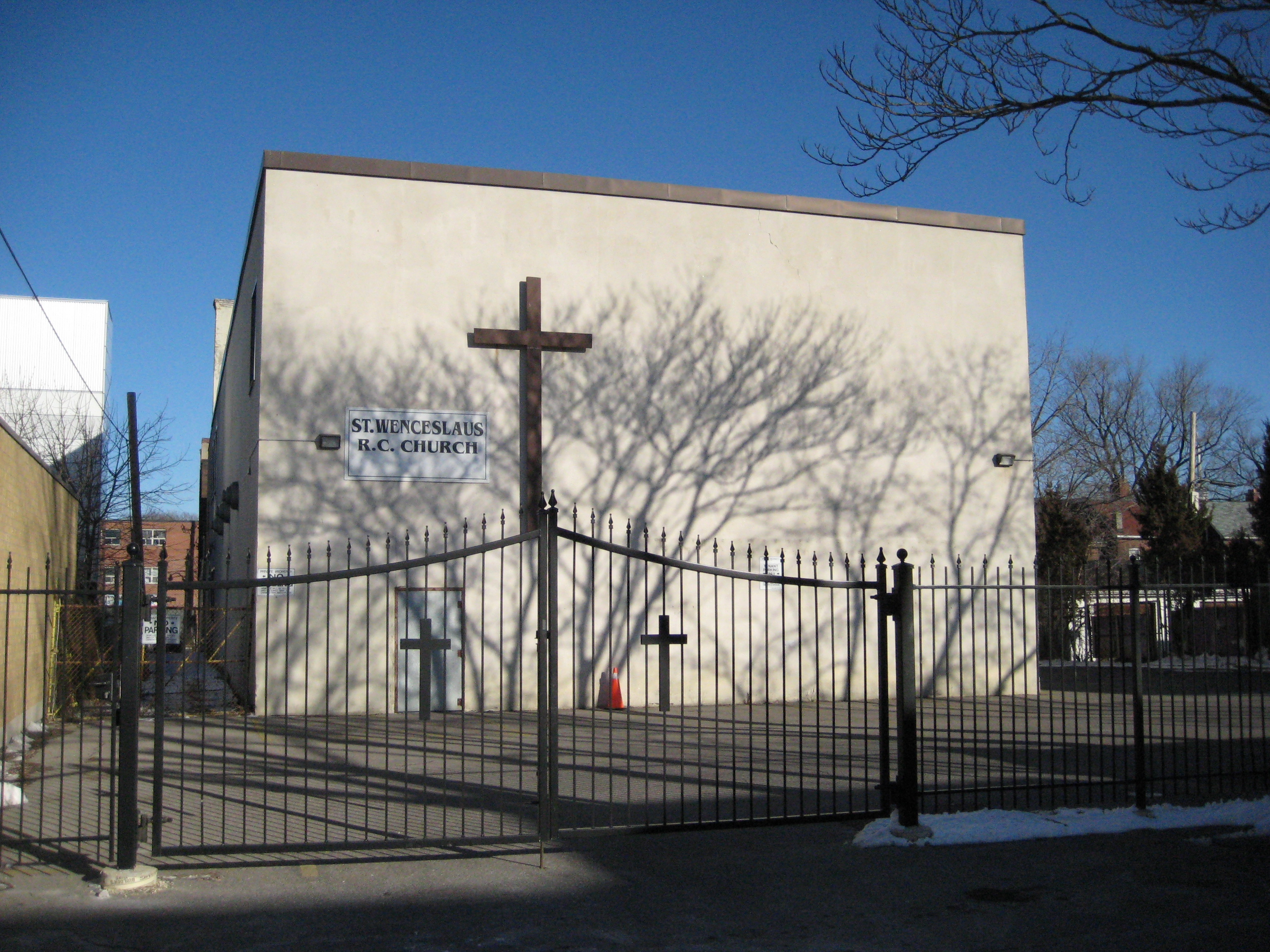 St. Wenceslaus Roman Catholic Church, Toronto